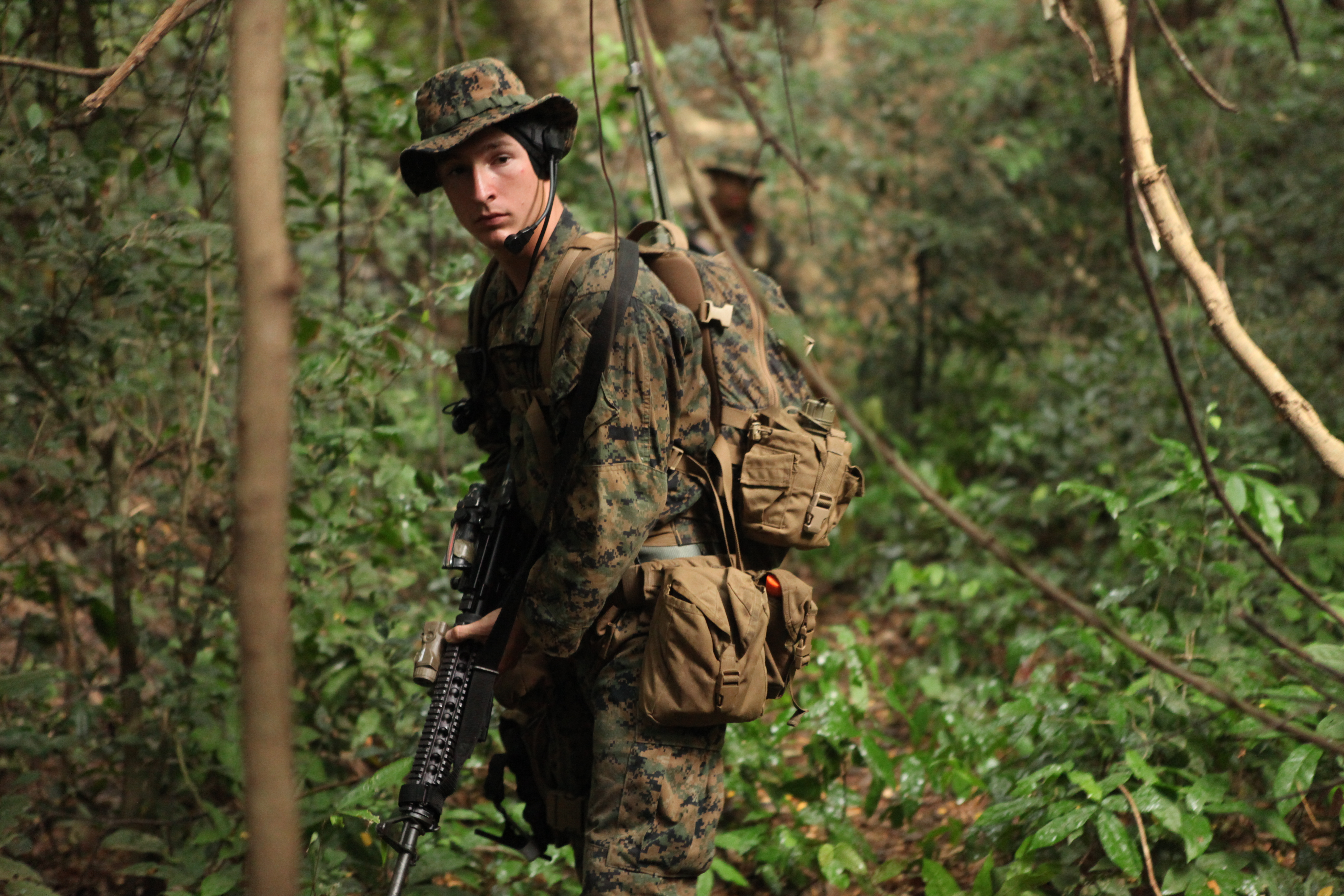 February 15, 2011, U.S. Marines with Company E, Battalion Landing Team (BLT), 2nd Battalion, 5th Marine Regiment, 31st Marine Expeditionary Unit (MEU), 3rd Marine Expeditionary Brigade (MEB), participate in a patrol through the jungle in Recon Camp, Kingdom of Thailand, in support of Exercise Cobra Gold 2011. For three decades, Thailand has hosted Cobra Gold, one of the largest land-based, joint, combined military training exercises in the world. A successful Cobra Gold 2011 results in increased operational readiness of U.S. and Thai forces and matured military to military relations between the two countries.